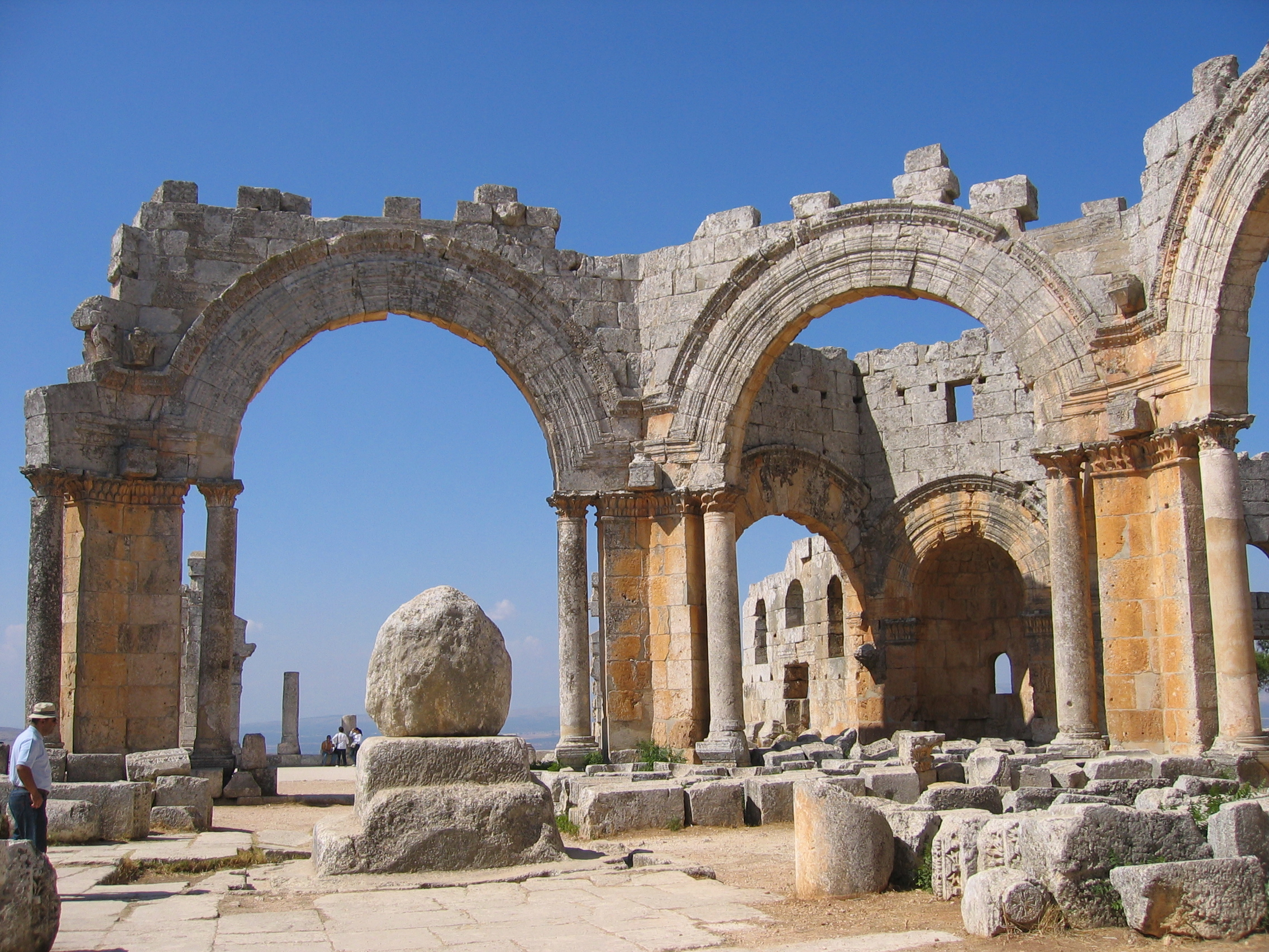 Description Church of Saint Simeon Stylites ruins.